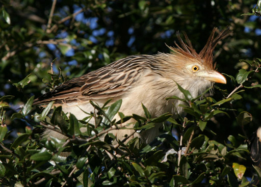 Guira Cuckoo, Guira guira, captive bird. Location: Jacksonville Zoo, Jacksonville, Florida, United States